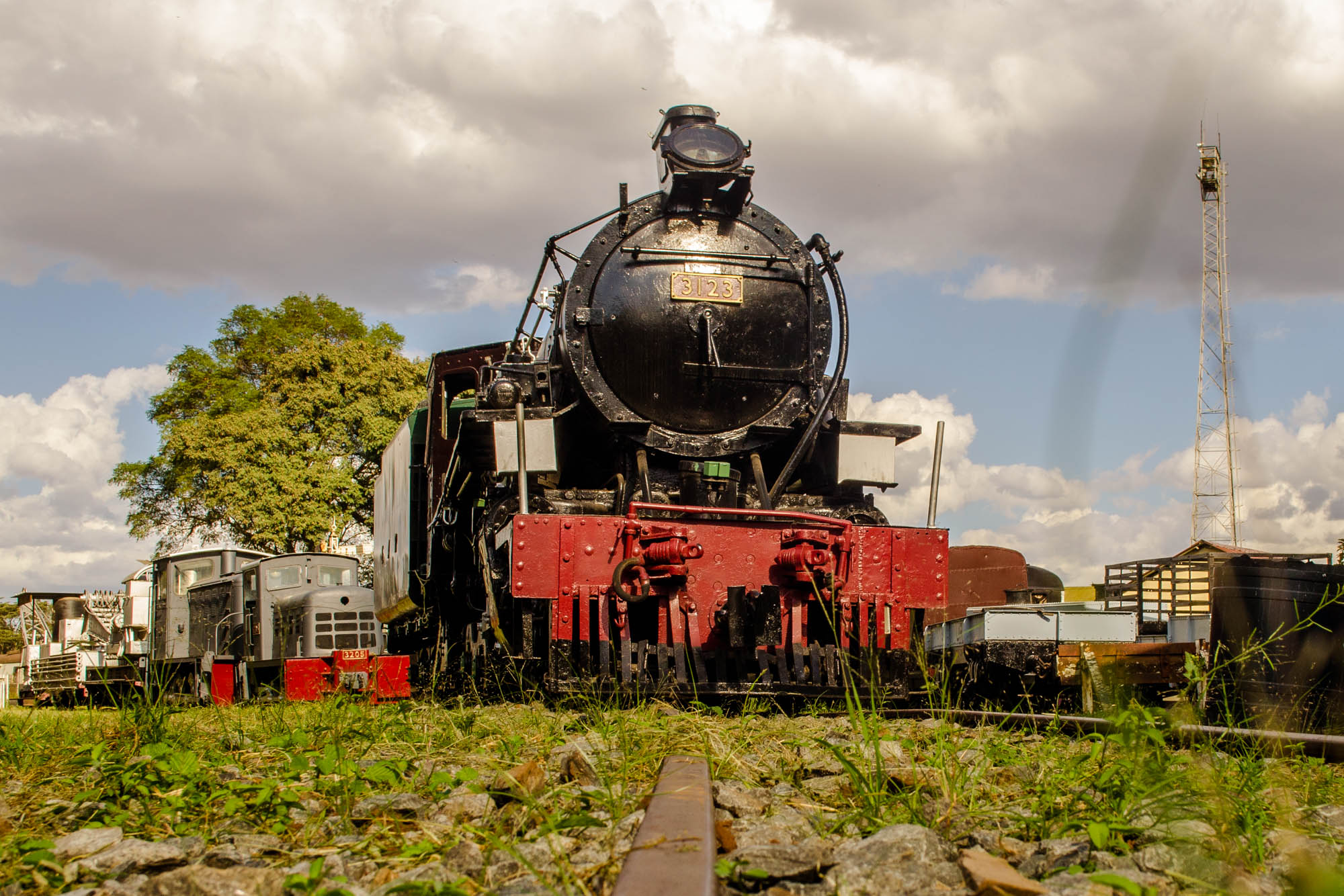 Was used for transportation and tourism activities from Mombasa to the shores of Lake Victoria. This is an image with the theme "Africa on the Move or Transport" from: Kenya